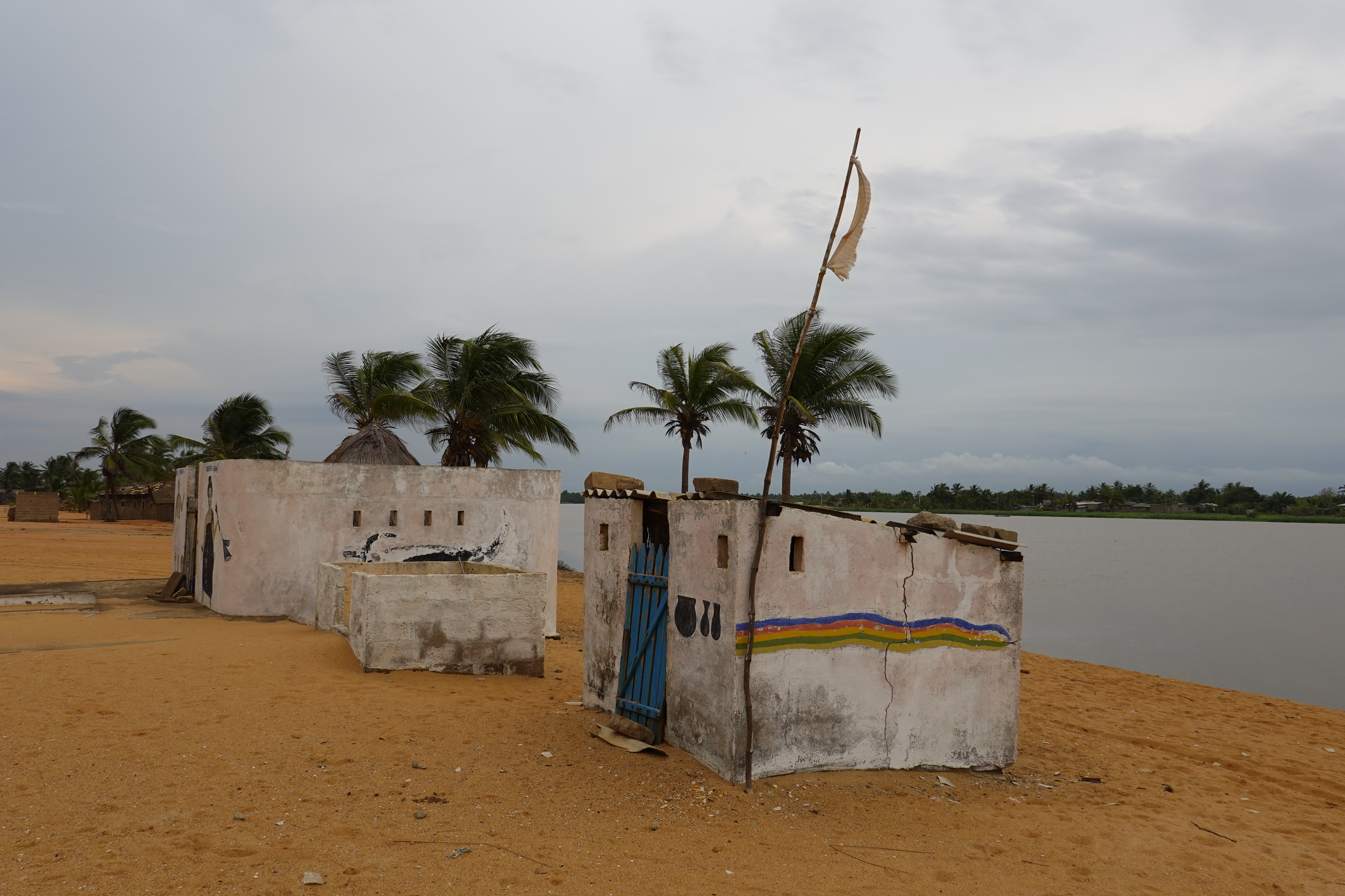 Wodoun compound, white flag, beach at Gbecon, Grand-Popo, Benin